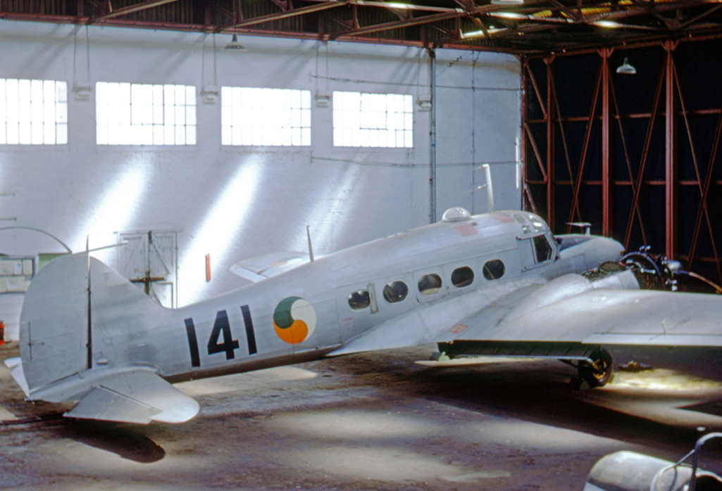 Avro 652 A Anson, XIX Series 1 of the Irish Air Corps at Casement Aerodrome, Baldonnel, Ireland, operated between 1946 and 1962. Date : 29.07.67